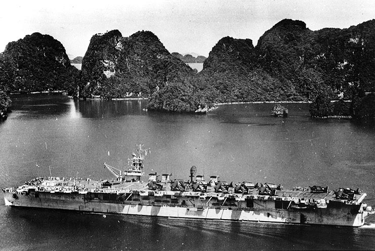 French Aircraft Carrier La Fayette (formerly USS Langley, CVL-27) in Indo-china waters, 1953.